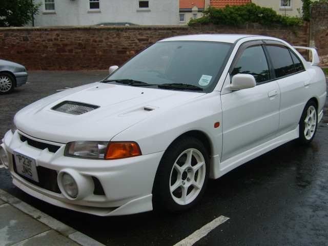 Mitsubishi Lancer Evolution IV (CN9A) - White